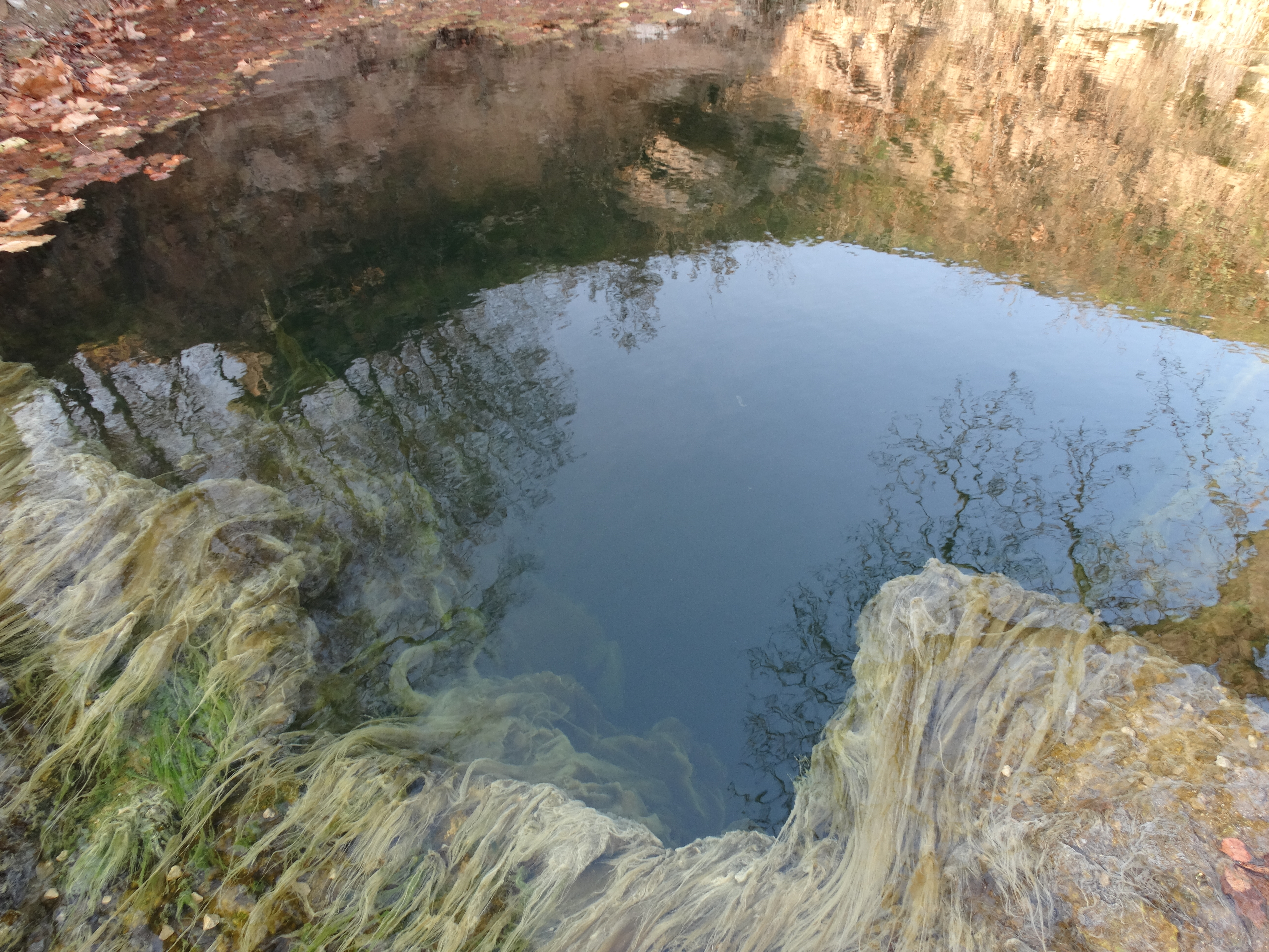 Žalsvasis Spring, Pasvalys, Lithuania